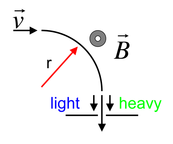 Schematic of a magnetic sector mass spectrometer